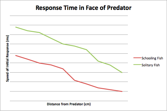 The number of individuals in a population who school is proportional to the availability of food in the banded killifish.[1] Schooling improves the chances of finding food if there is a scarcity, while schooling increases competition unnecessarily if there is plenty available.